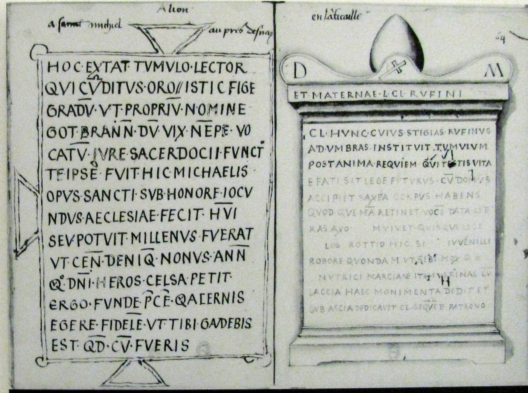 2 pages in Manuscrit by Pierre Sala Les antiquités de Lyon, begining of XVIe century